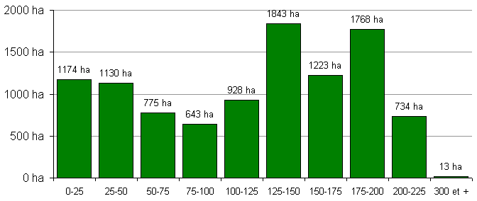 Age class of the stands in the forest of Tronçais (France) in 2001.